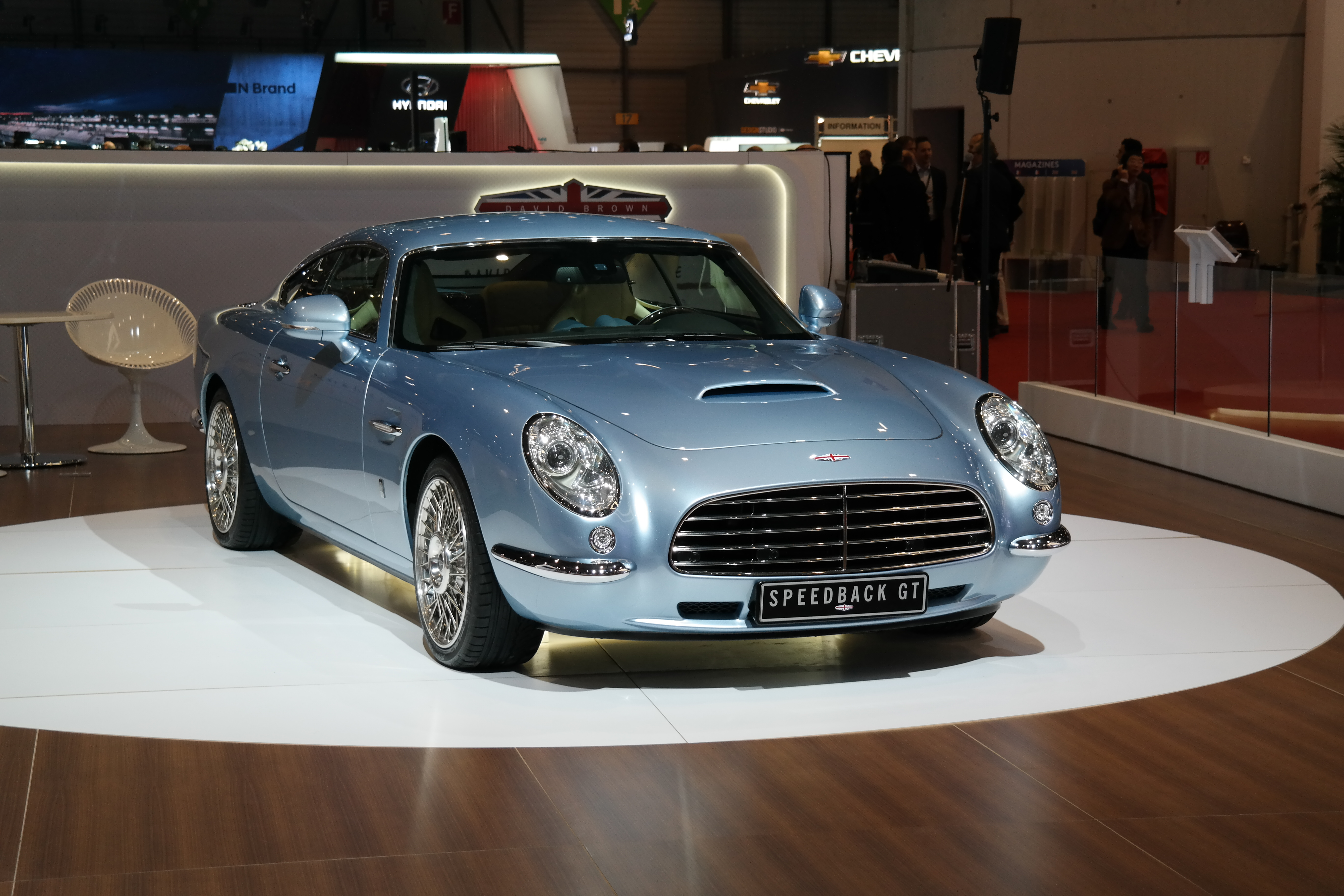 Geneva Motor Show 2017 (photo taken on the first press day)